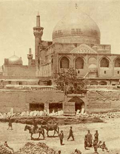 Imam Reza's Sanctuary old pics